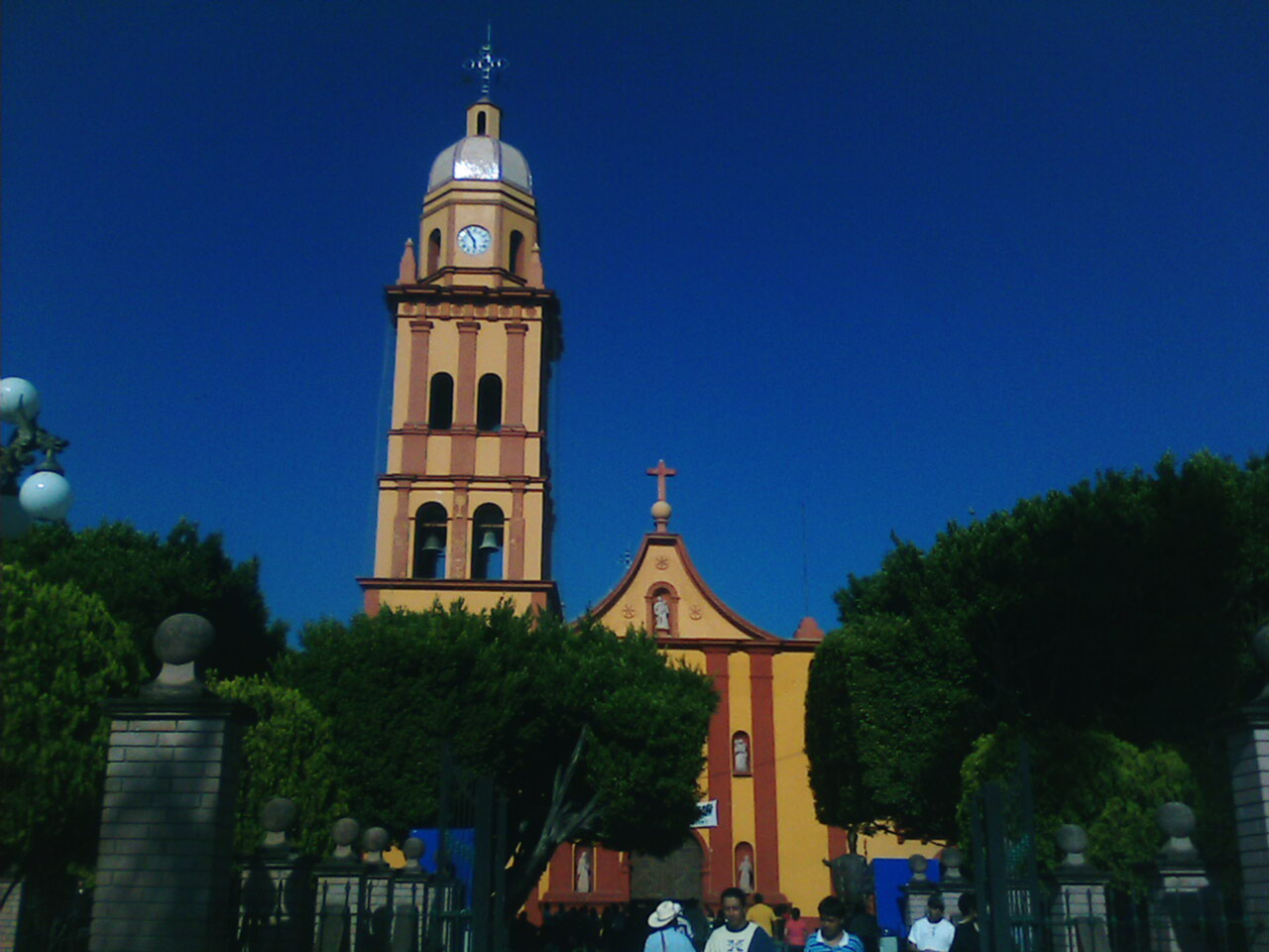 main church in the centre of Rio Verde, San Luis Potosi, Mexico.